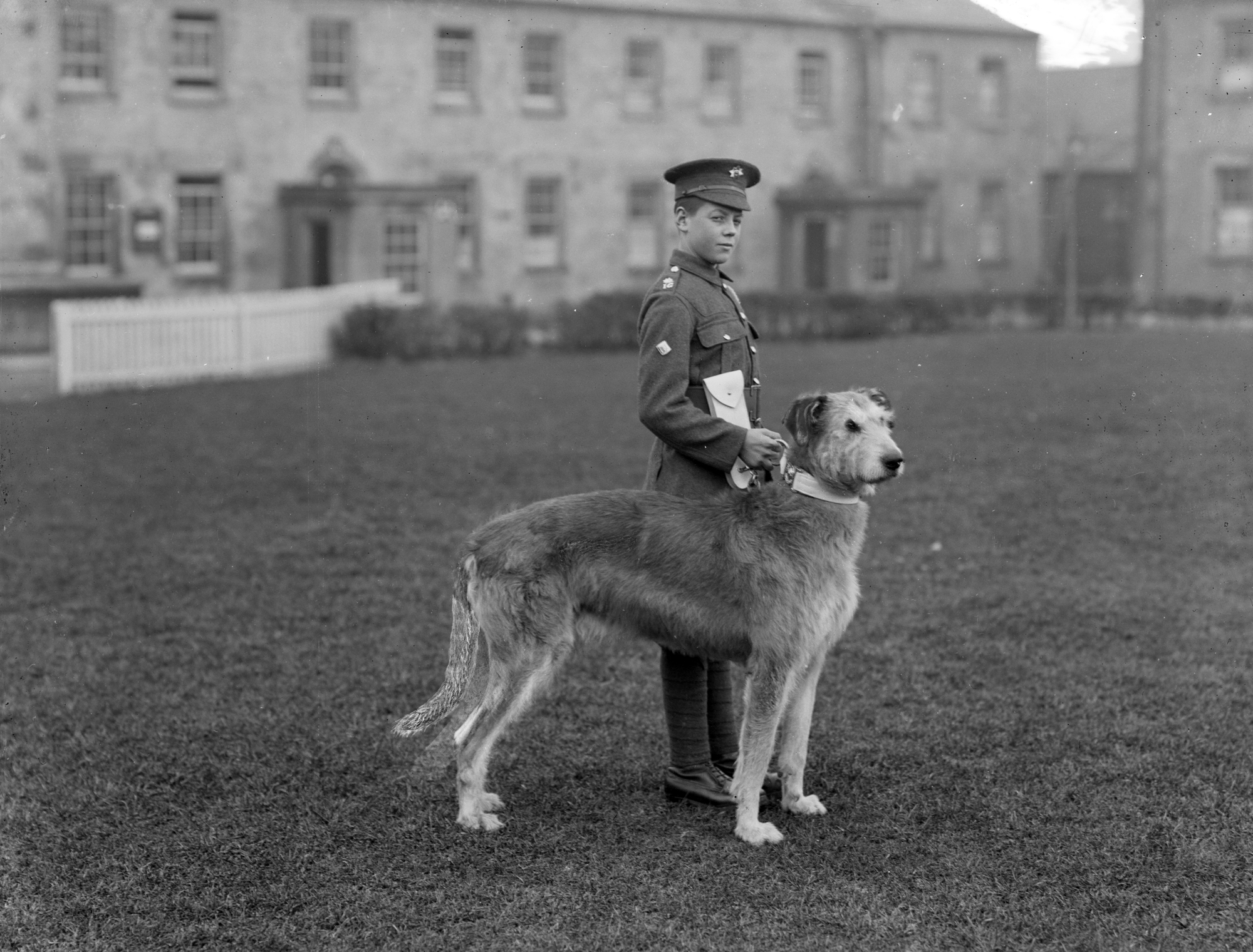 A very young member of the Irish Guards, pictured at Waterford Barracks with the regiment's mascot, an Irish Wolfhound. I thought that the dog must have moved, because on zooming in, there seemed to be a ghostly leg, and some obvious remedial work on his tail. James Guerin explained this effect: "I think the 'ghost' is the original position of the dog's tail and maybe this was too 'between its legs' for the owner. Seems a bit bizarre to edit it but maybe this was a 2nd version and the owner ended up going for the original print as the edit was too obvious. " Believe it or not, we now have a name for this dog. He was Leitrim Boy, out of Galtee Boy and Carlow Nora. Leitrim Boy was born on Tuesday, 12 November 1907, and so would have been 9 years old when this photo was taken (or 63 in dog years!). Thanks to Niall McAuley for providing us with this great link to Irish Guards' mascots down through the centuries, including our lovely Leitrim Boy. As was pointed out below by a few people, the Irish Guards were on the Western Front in 1917, but as ofarrl said: "I think the most likely explanation for the presence of the Irish Guards, or at least the band members, in Waterford would have been for the purposes of recruitment, they did a similar tour of Ireland in April 1915." Date: Wednesday, 21 February 1917 NLI Ref.: P_WP_2708